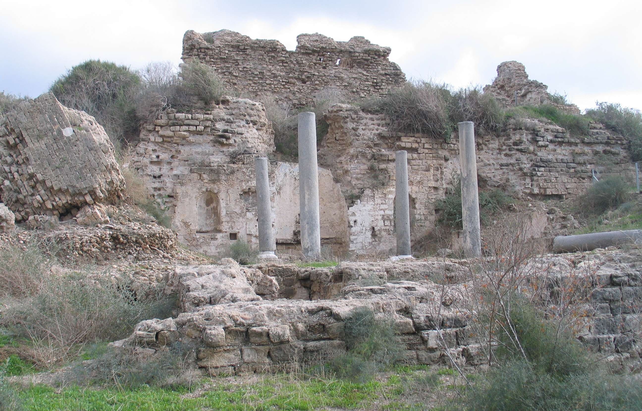 Ashkelon national park, Israel.